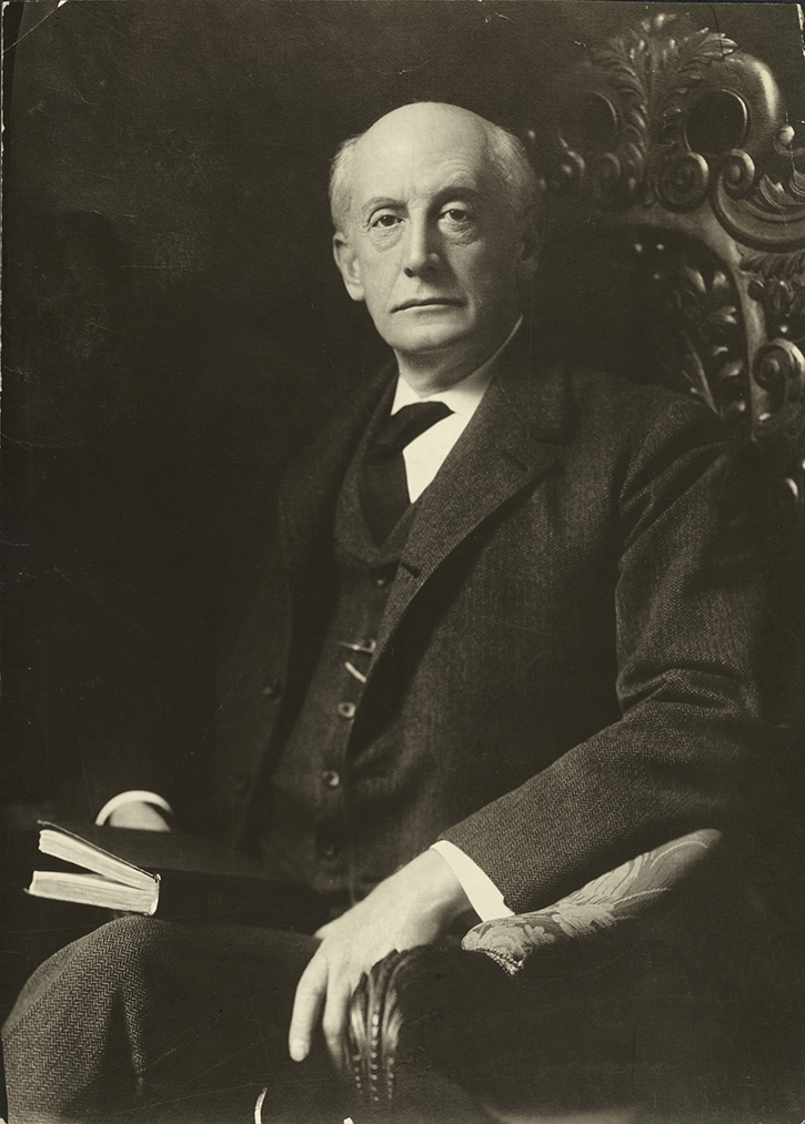 A formal portrait of Storey later in life